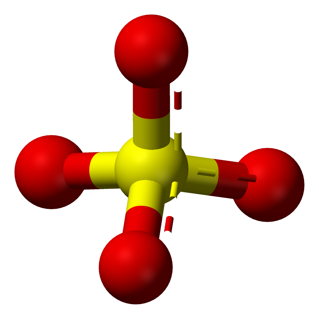 Ball-and-stick model of the sulfate anion, an ion with a 2- charge, containing sulfur in its highest oxidation state (+6), formally derived from sulfuric acid. It occurs in many minerals.